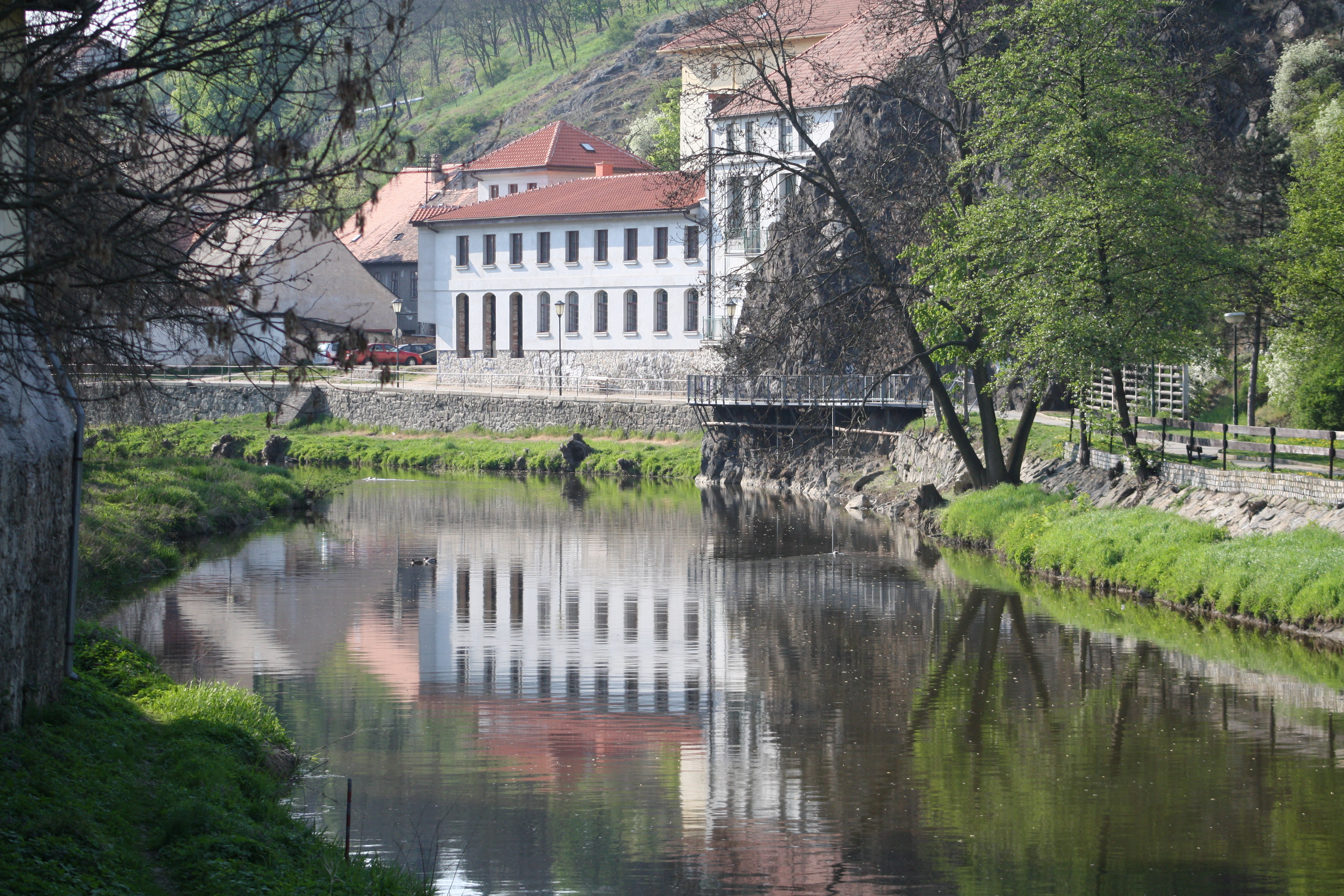 Hassek's gardens, Zámostí and Jihlava River in Třebíč, Czech Republic.